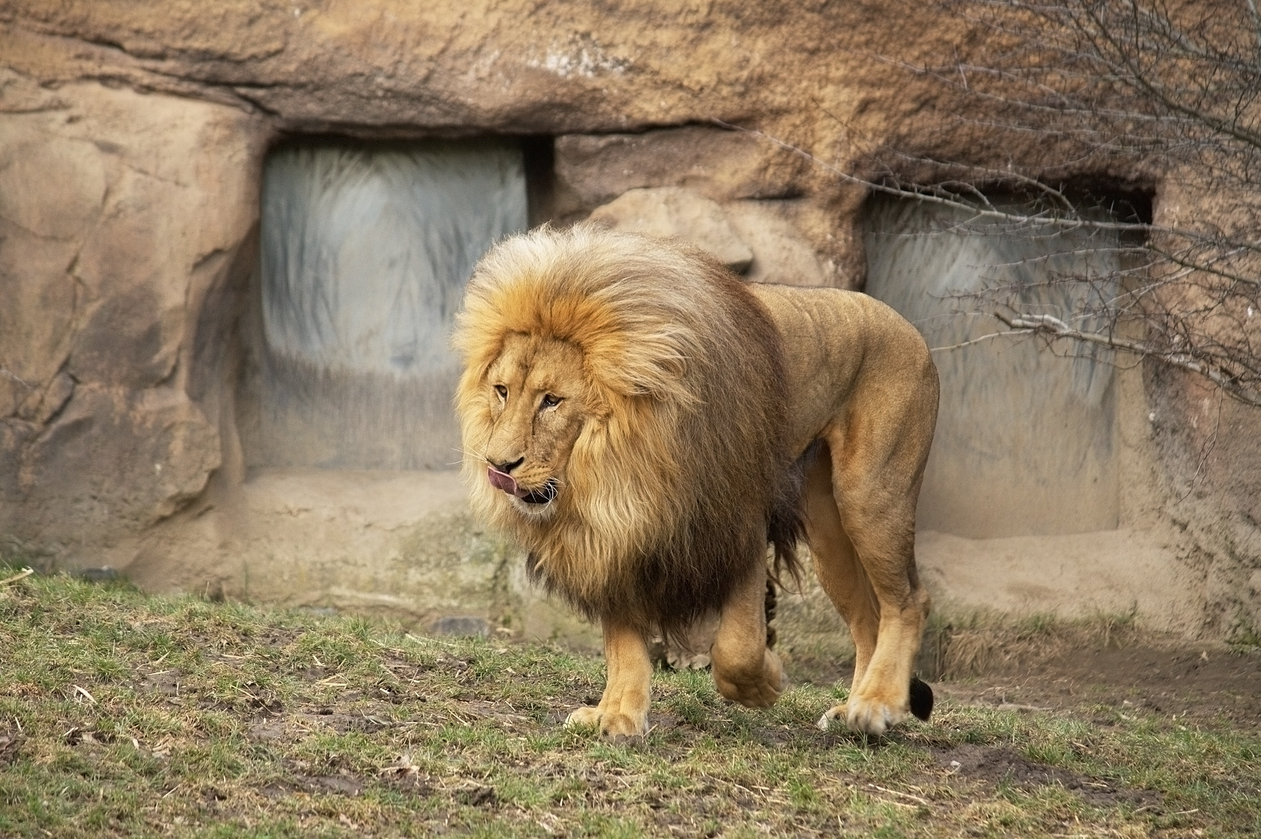 Panthera leo bleyenberghi